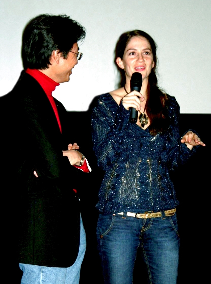 Tali Sharon at International asian movies festival in Vesoul